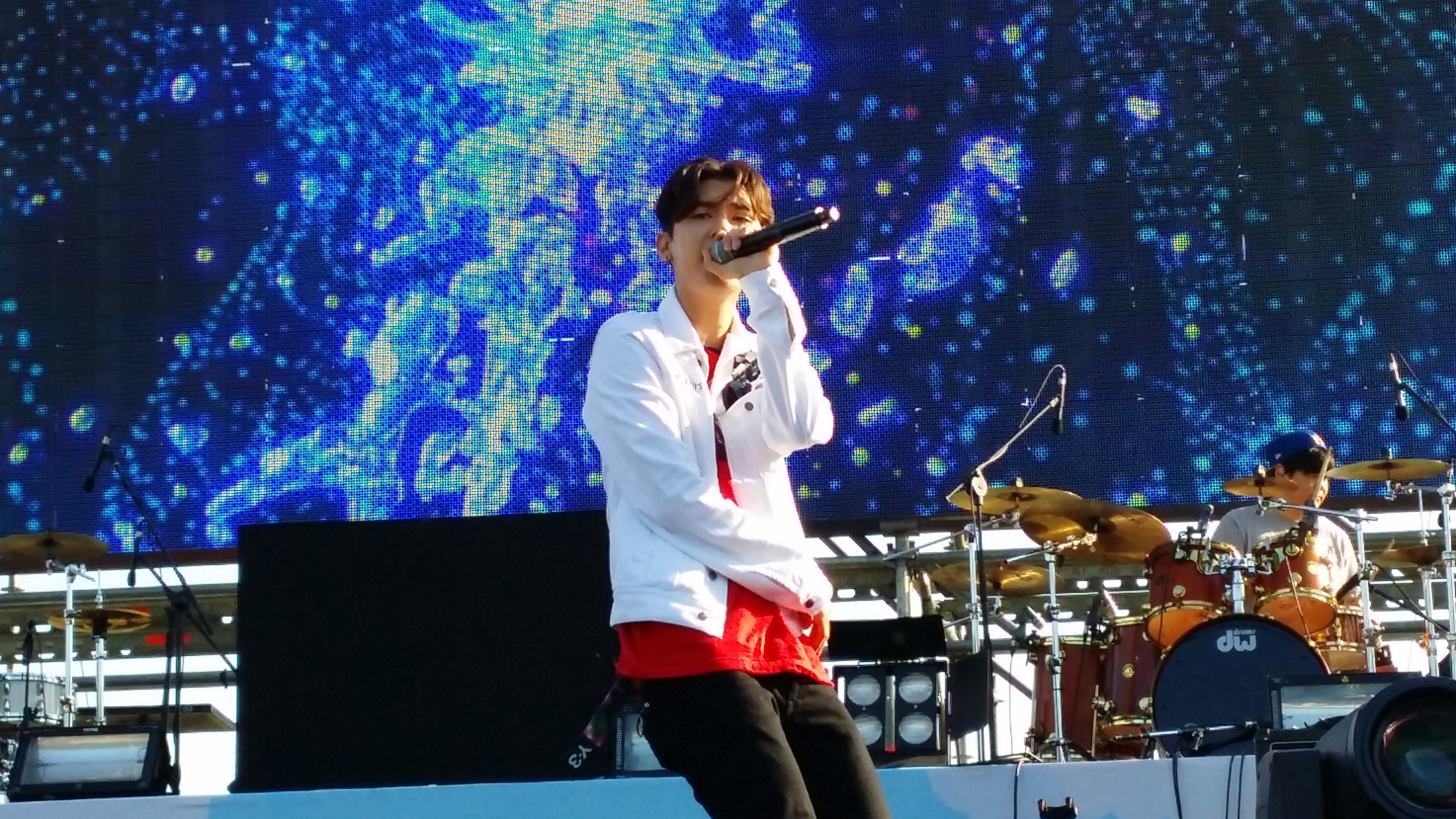 Jooyoung performing in 2015 Greenplugged Seoul